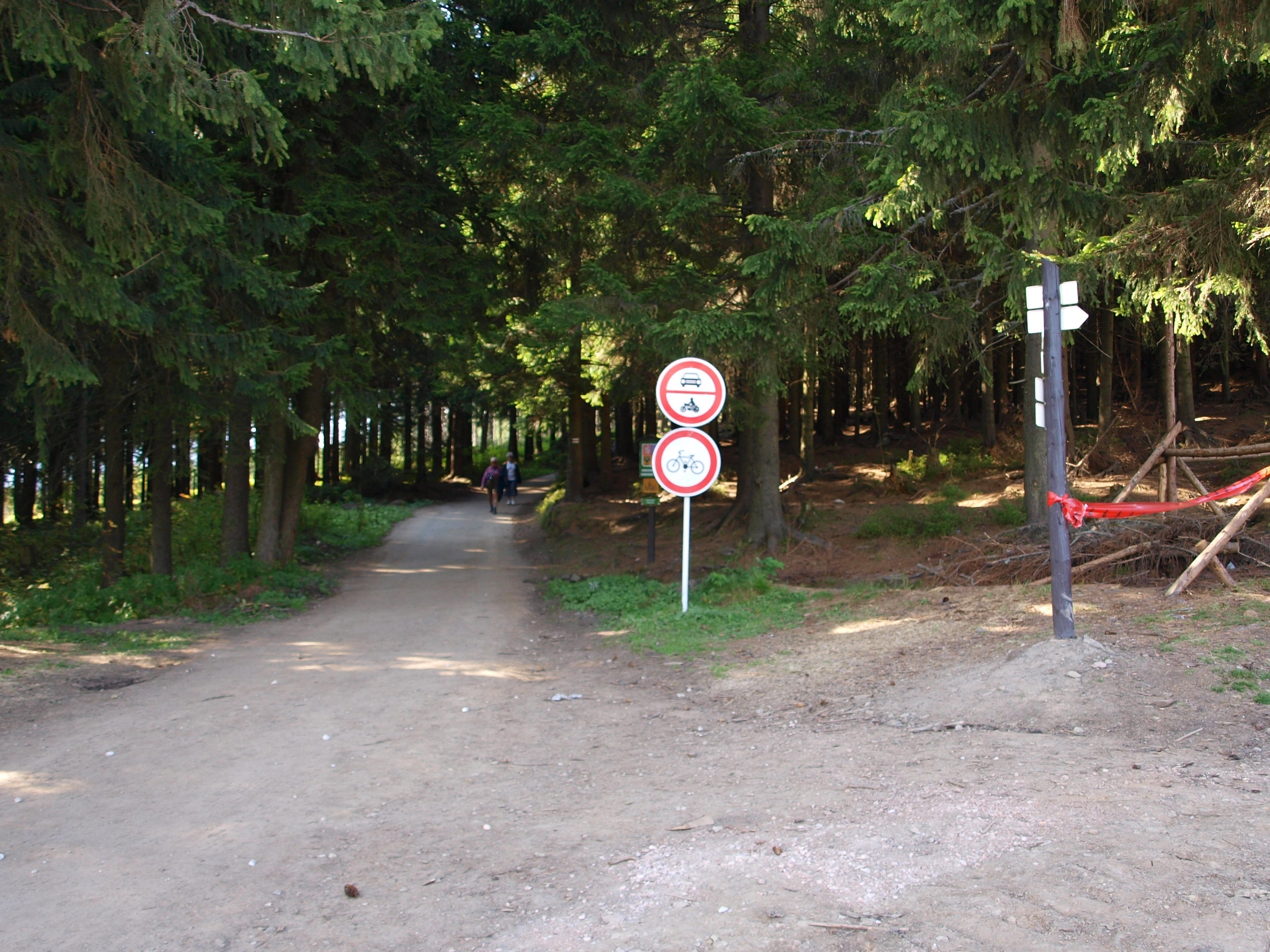 End of cesta česko-polského přátelství, Pomezní Boudy, Krkonoše